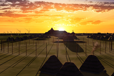 Artist's conception of the sunrise over Monks Mound as seen from the Woodhenge III timber circle at the Mississippian culture Cahokia Mounds site near Collinsville, Illinois, circa 1000 CE. All rights held by the artist, Herb Roe © 2017. #cahokia #woodhenge #timbercircle #mississippianculture